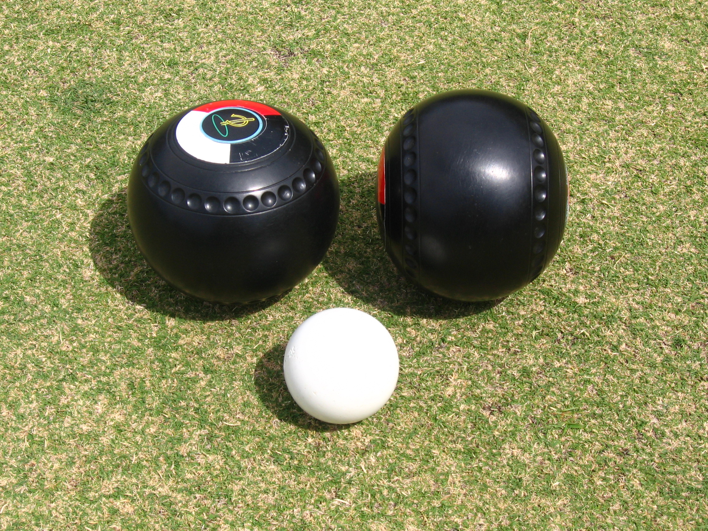 Two lawn bowls and the kitty (or jack)